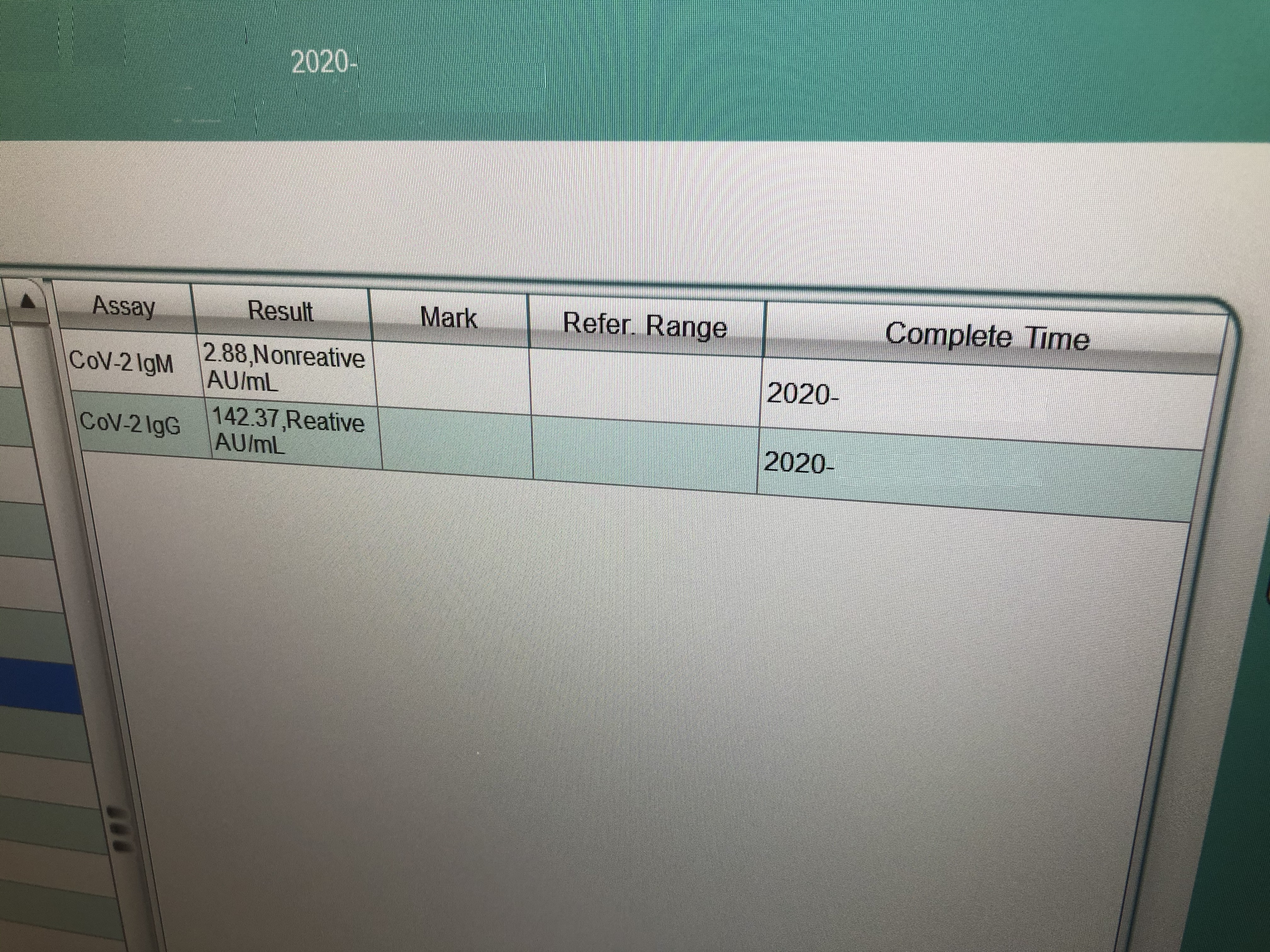 Antibody test IgG and IgM for Corona